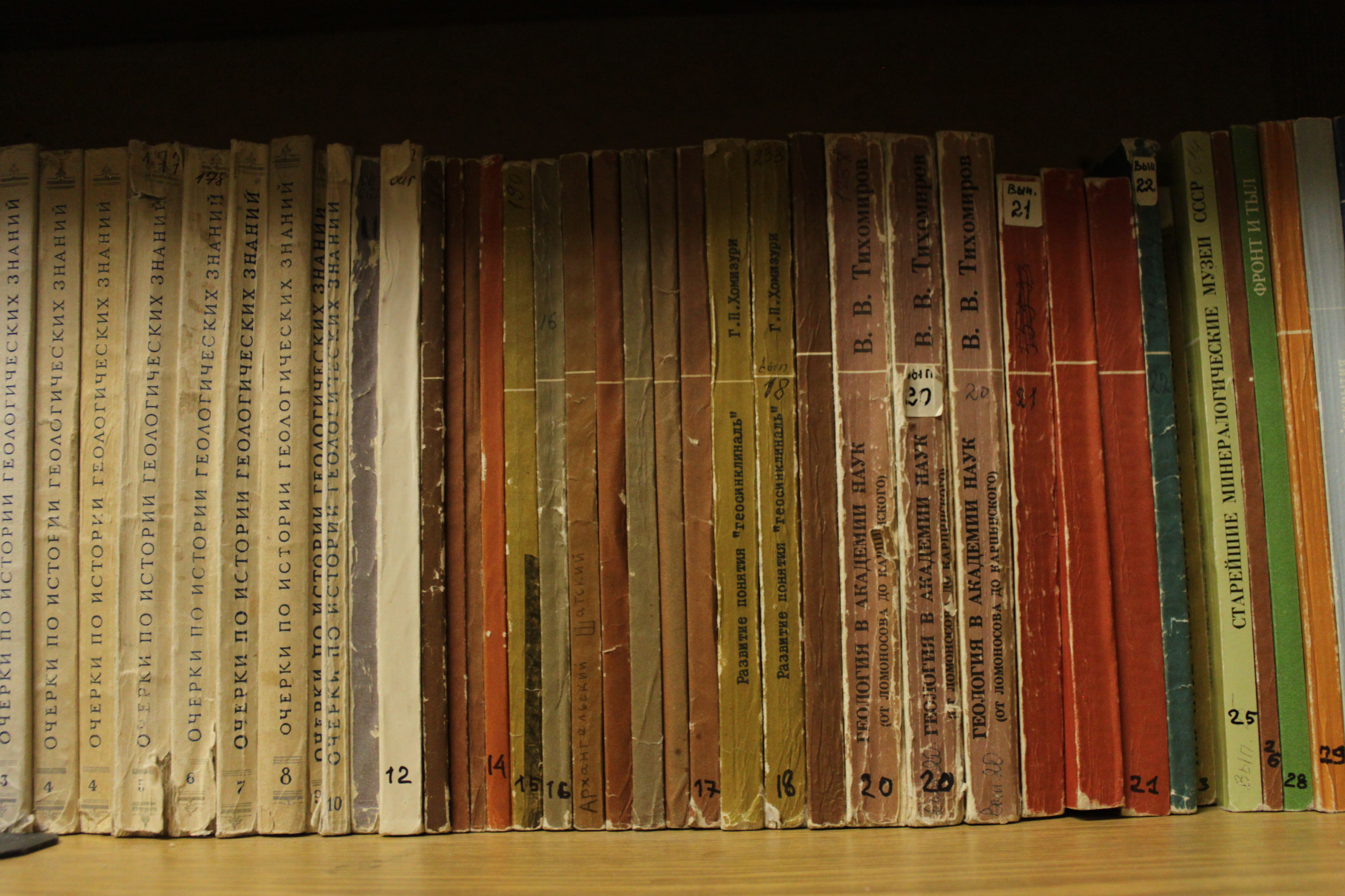 Wikitrip to Geography Institute RAS 2019-12-19.